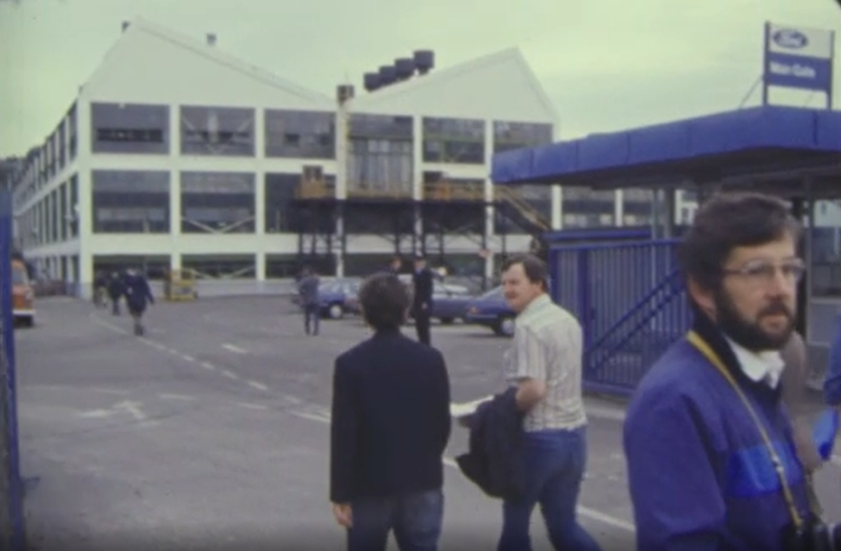 Workers walking in to work for the last time at the Cork Plant